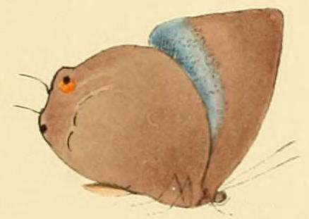 Plate: Supplement IVa Iolaus inores. Figs. 44, 45 ♂. Accepted as Sukidion inores (Hewitson, 1872).